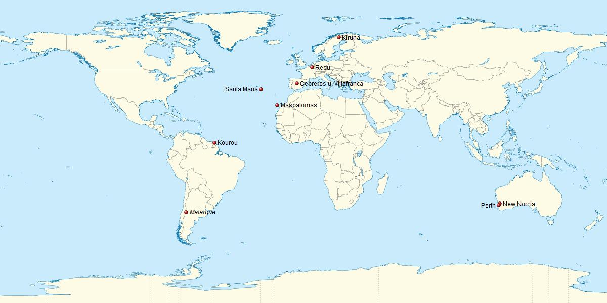 Locations of ESTRACK stations on a world map